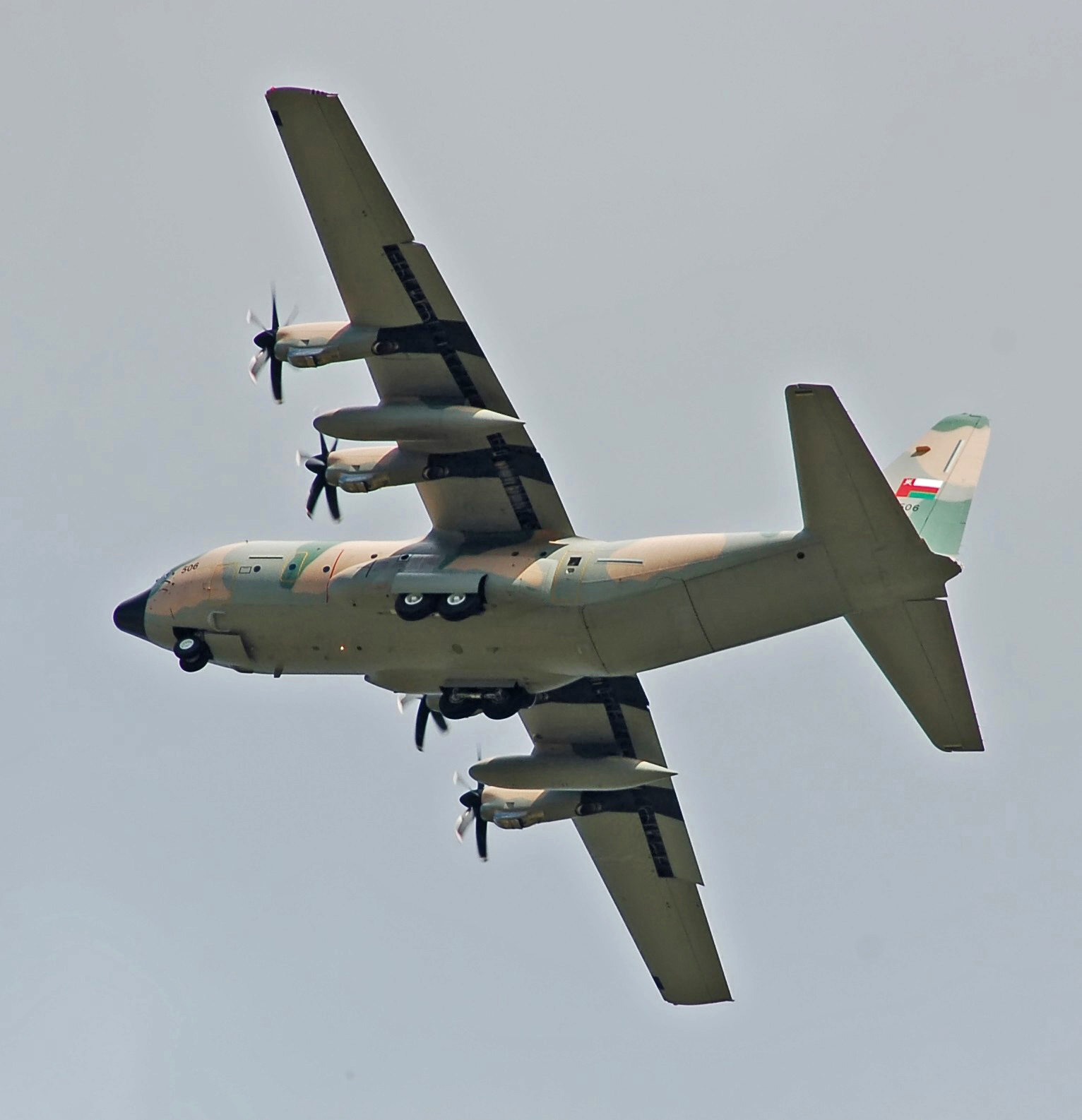 Royal Air Force of Oman Hercules C-130J (code 506) departs the 2014 Royal International Air Tattoo, RAF Fairford, Gloucestershire, England.